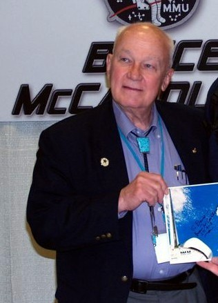 I personally took this photo of NASA astronaut Bruce McCandless in San Diego.